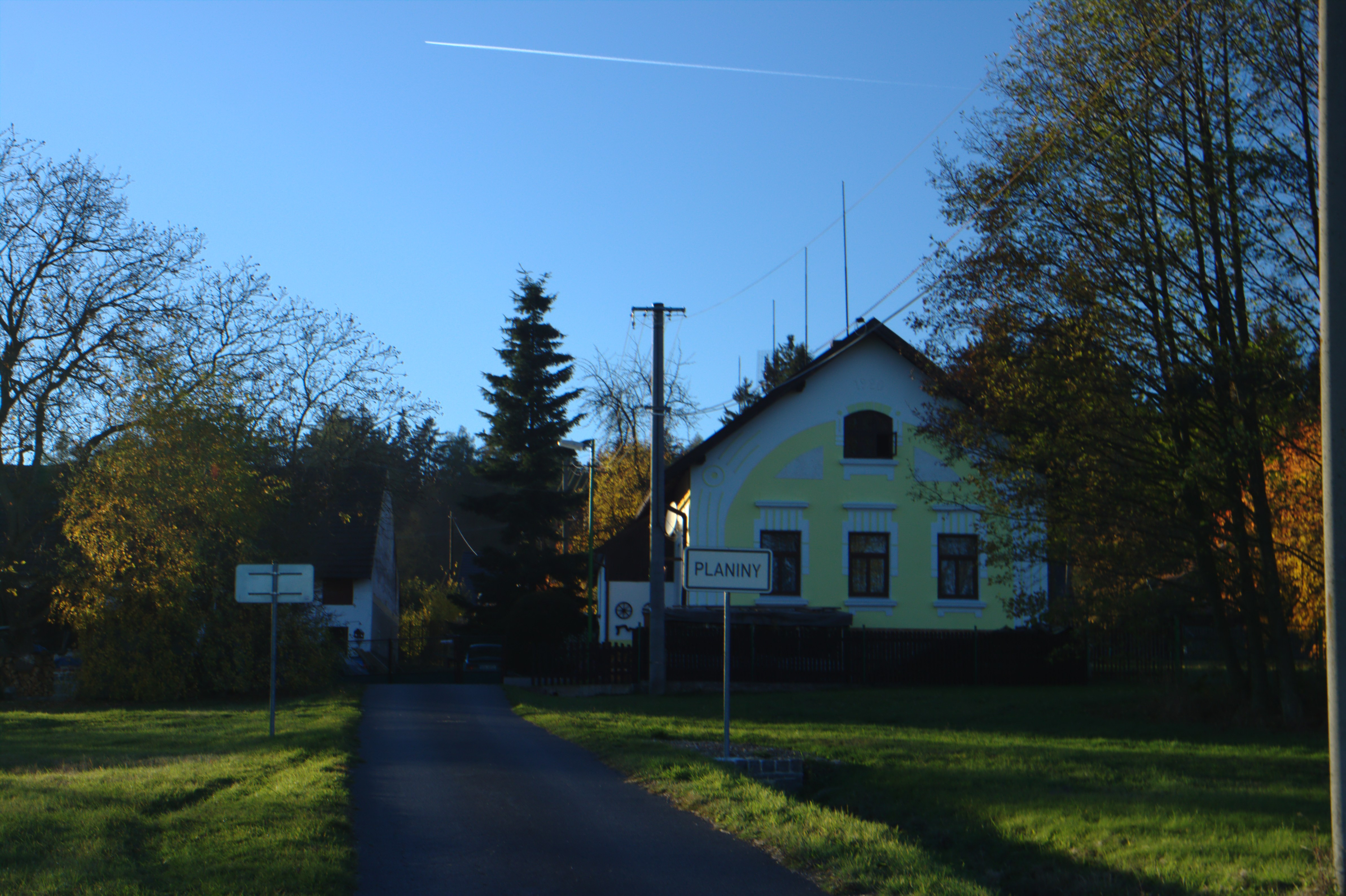 A road to the village of Planiny near Hvožďany, Central Bohemia, CZ